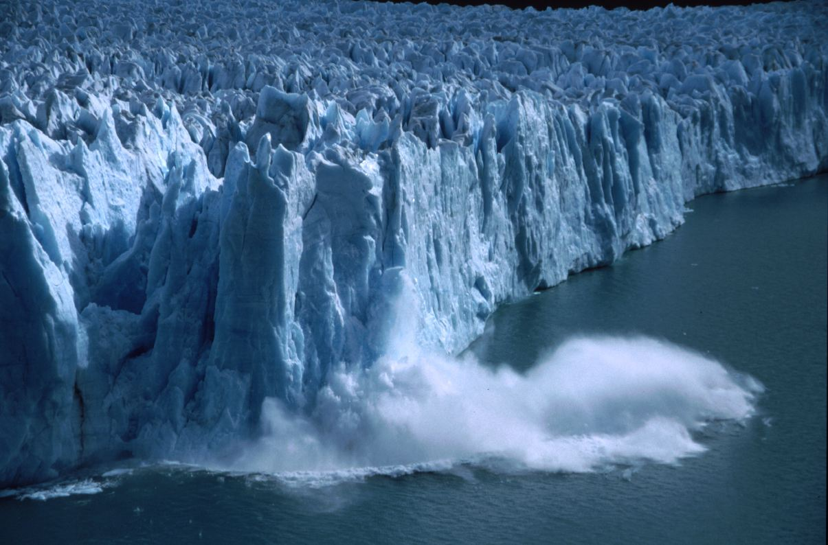 Perito Moreno Glacier, in Los Glaciares National Park, southern Argentina